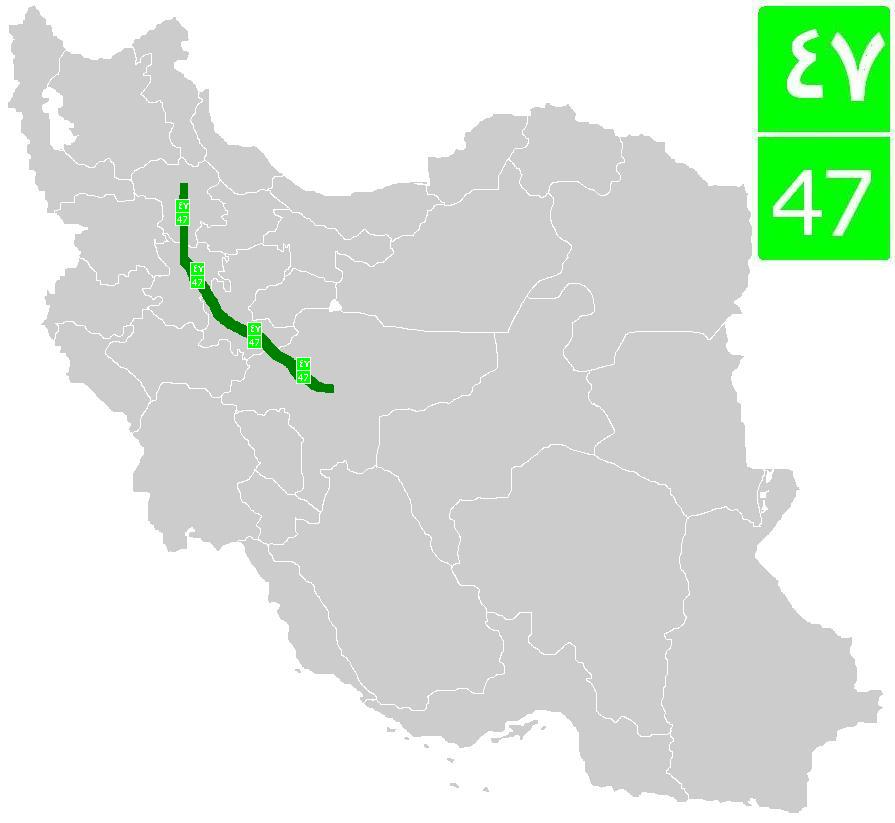 Location of Road 47 in Iran